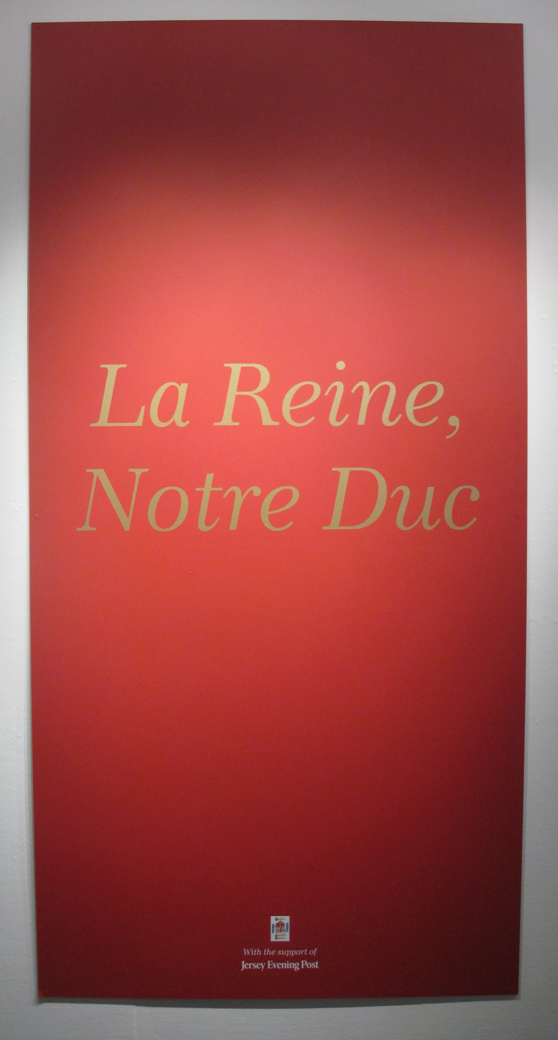 Sign of exhibition of images of HM Queen's visits to Jersey - a Diamond Jubilee event at the Jersey Arts Centre. The title of the exhibition is the traditional phrase referring to the monarch that alludes to her traditional title of Duke of Normandy